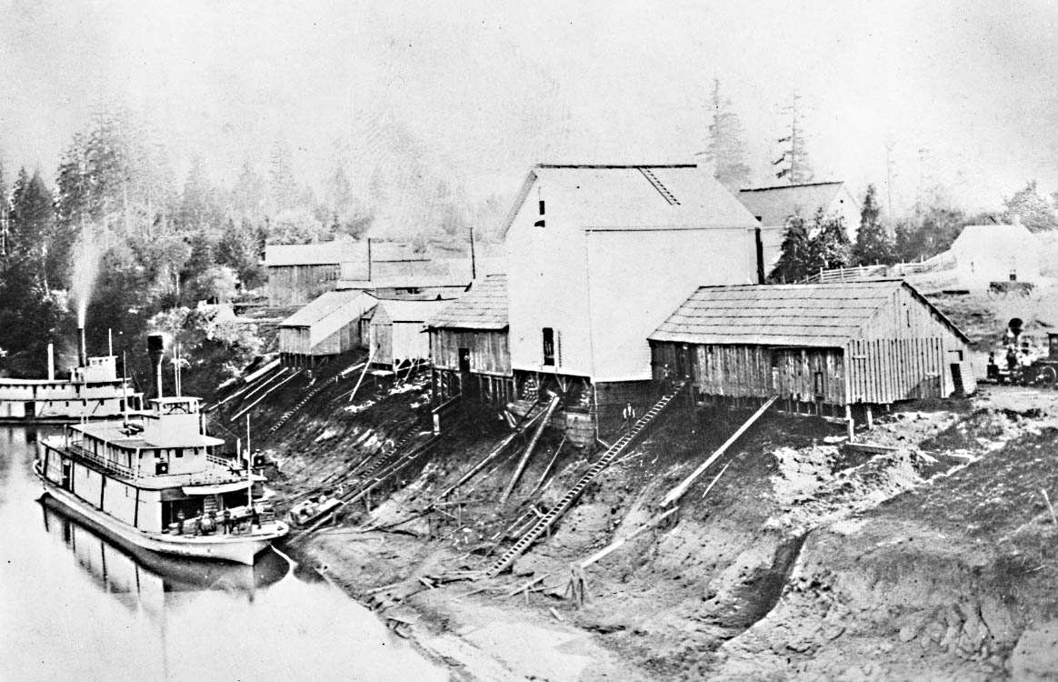 A.A. McCully (sternwheeler) and another sternwheeler on the Yamhill River at Dayton, Oregon ca 1885